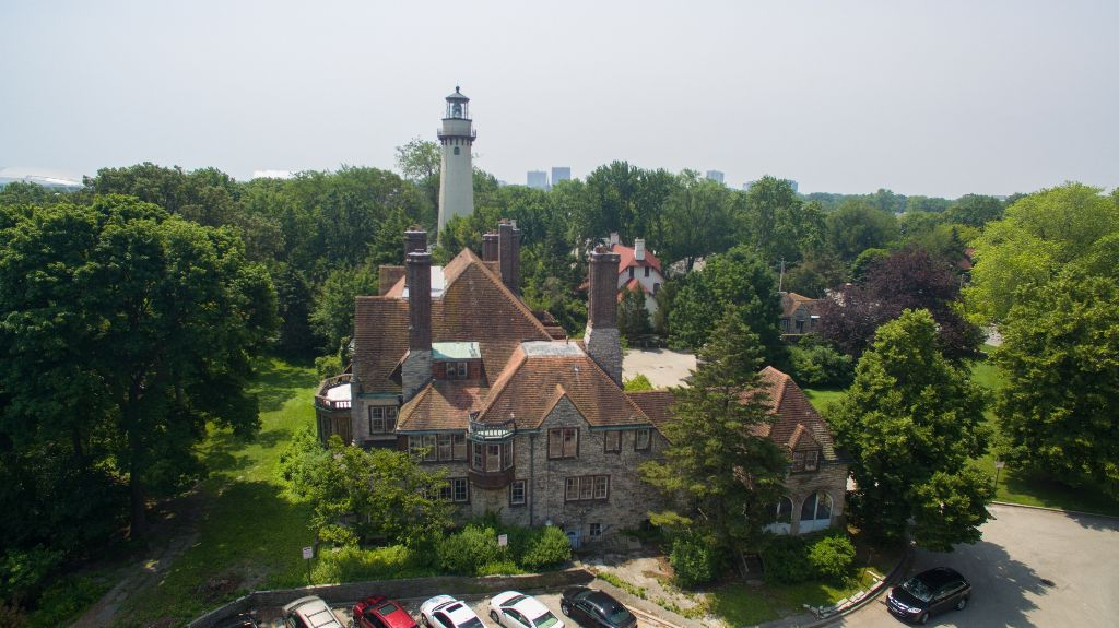 Photo of Harley Clarke Mansion